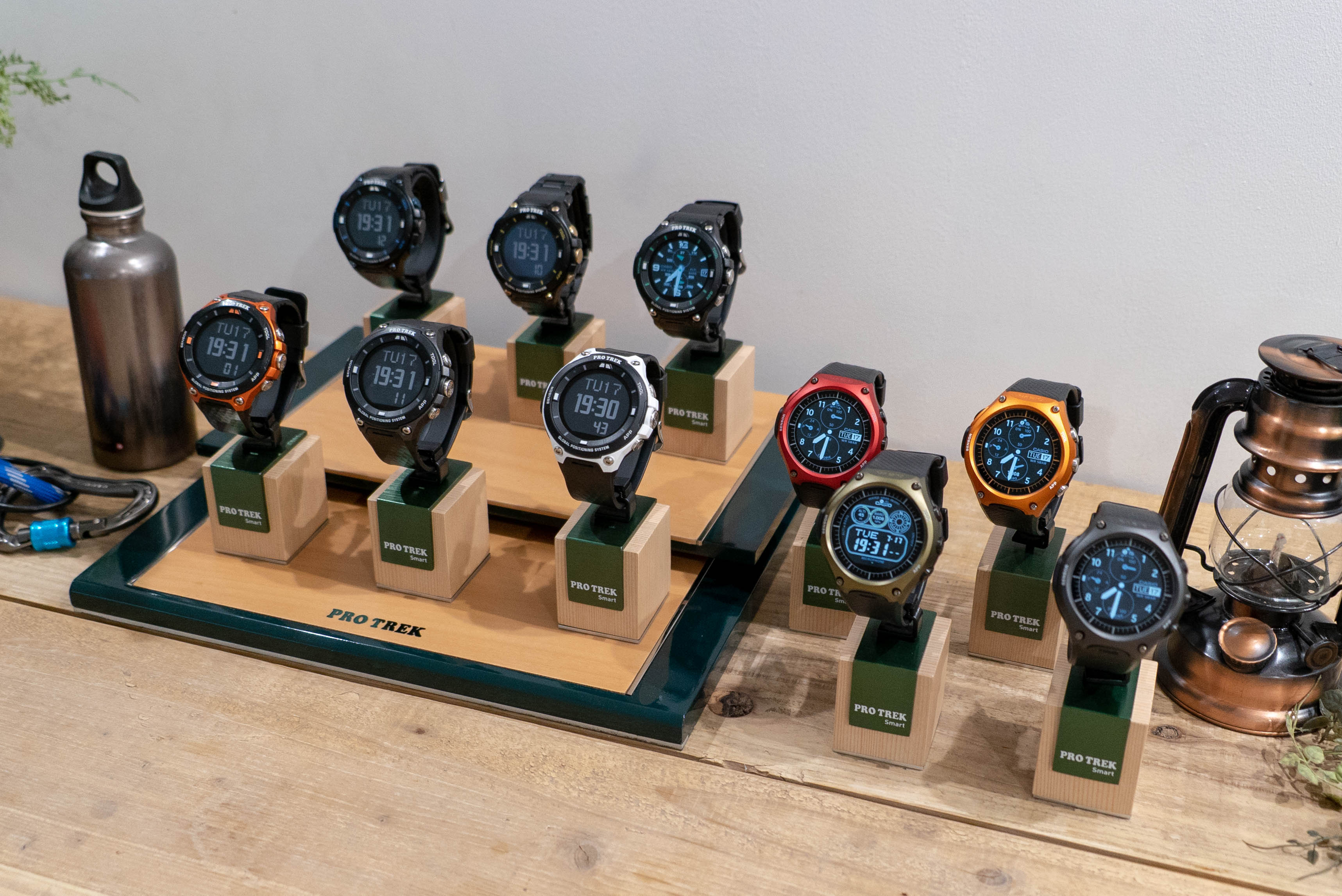 Casio's PRO TREK.